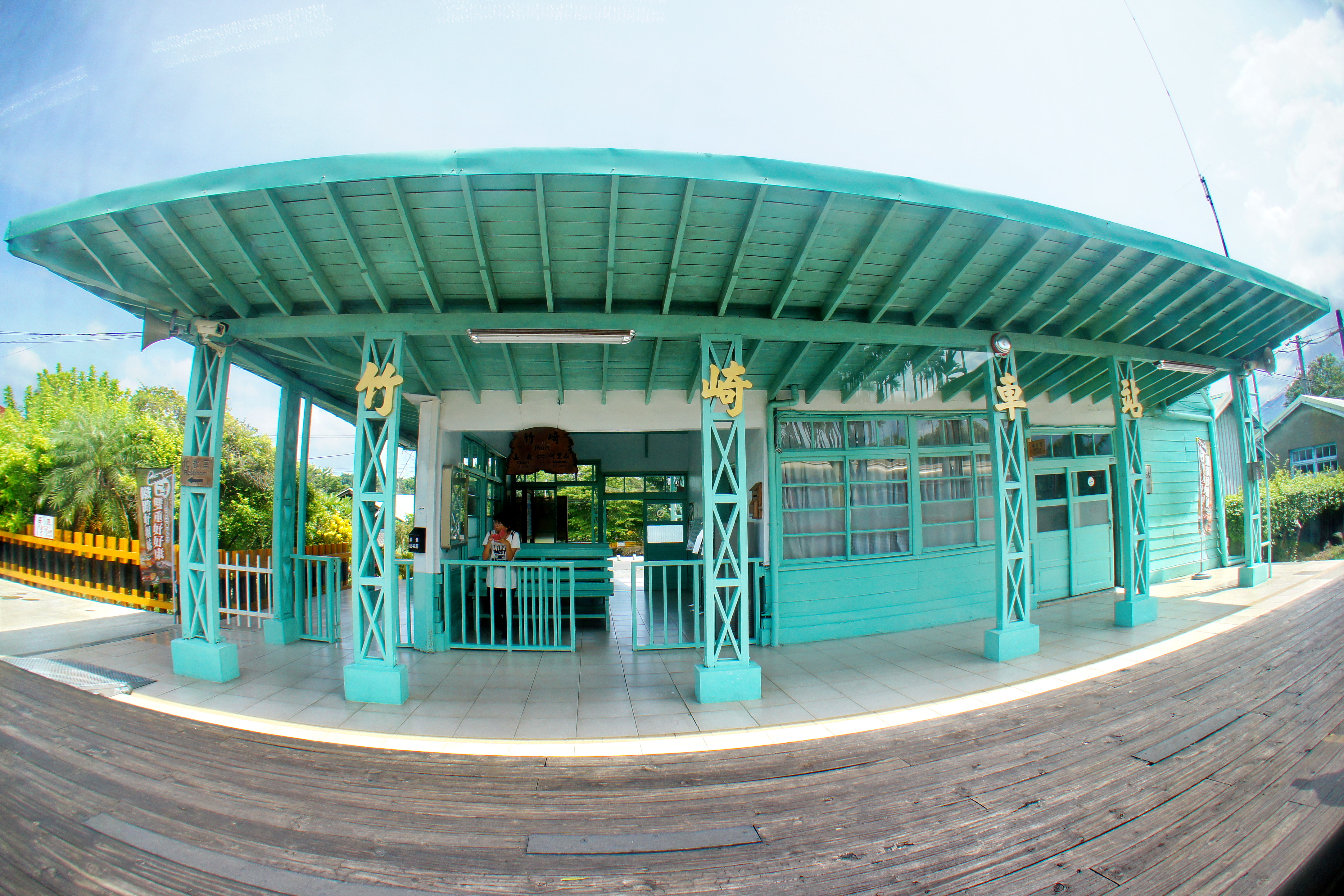 Zhuqi Station (Jhuci Station), Chiayi County, Taiwan. A railway station on the Taiwan Railways Administration (TRA) Alishan Forest Railway Line.